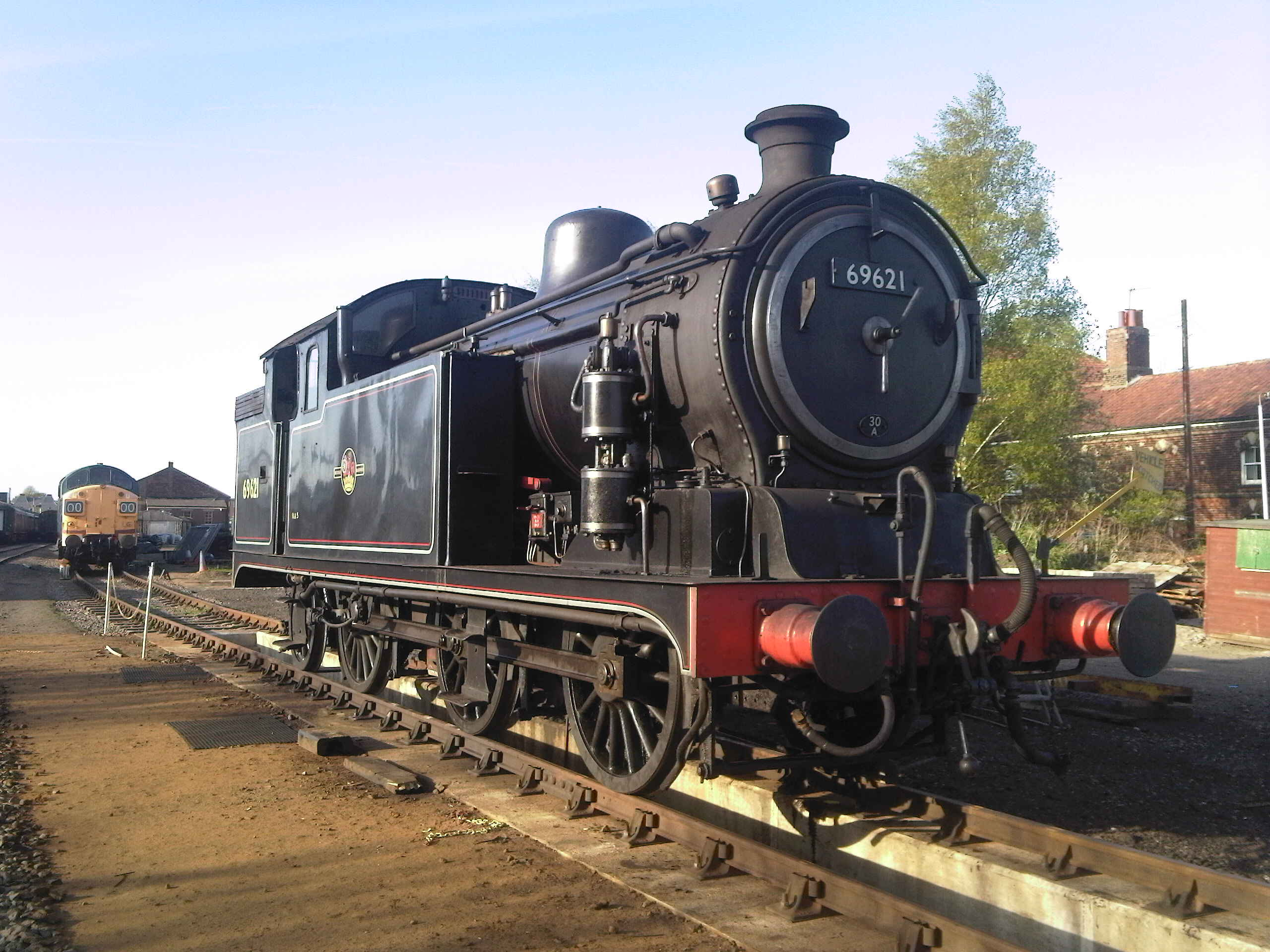 Preserved N7 on the inspection pit at Dereham, Mid-Norfolk Railway